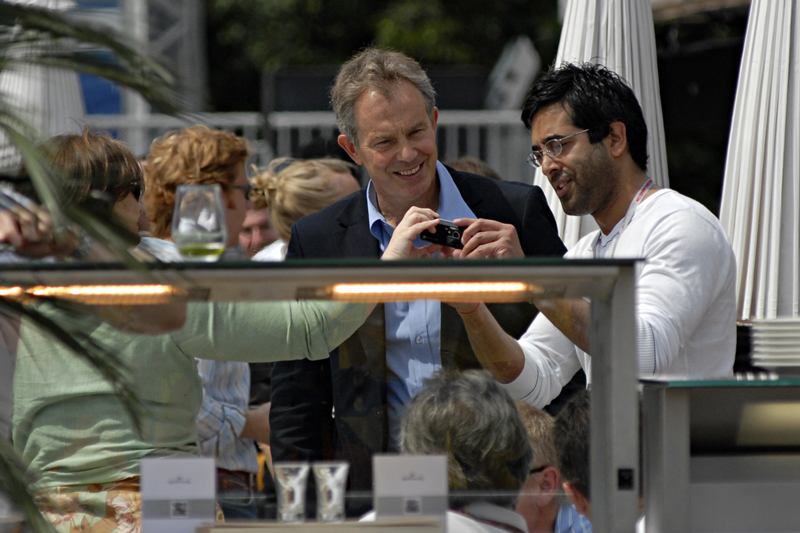 Tony Blair and Cherie Blair at the Red Bull Air Race 2007, in London, England. Tony Blair in in the middle of the photograph and Cherie Blair is on the left in a light green top.